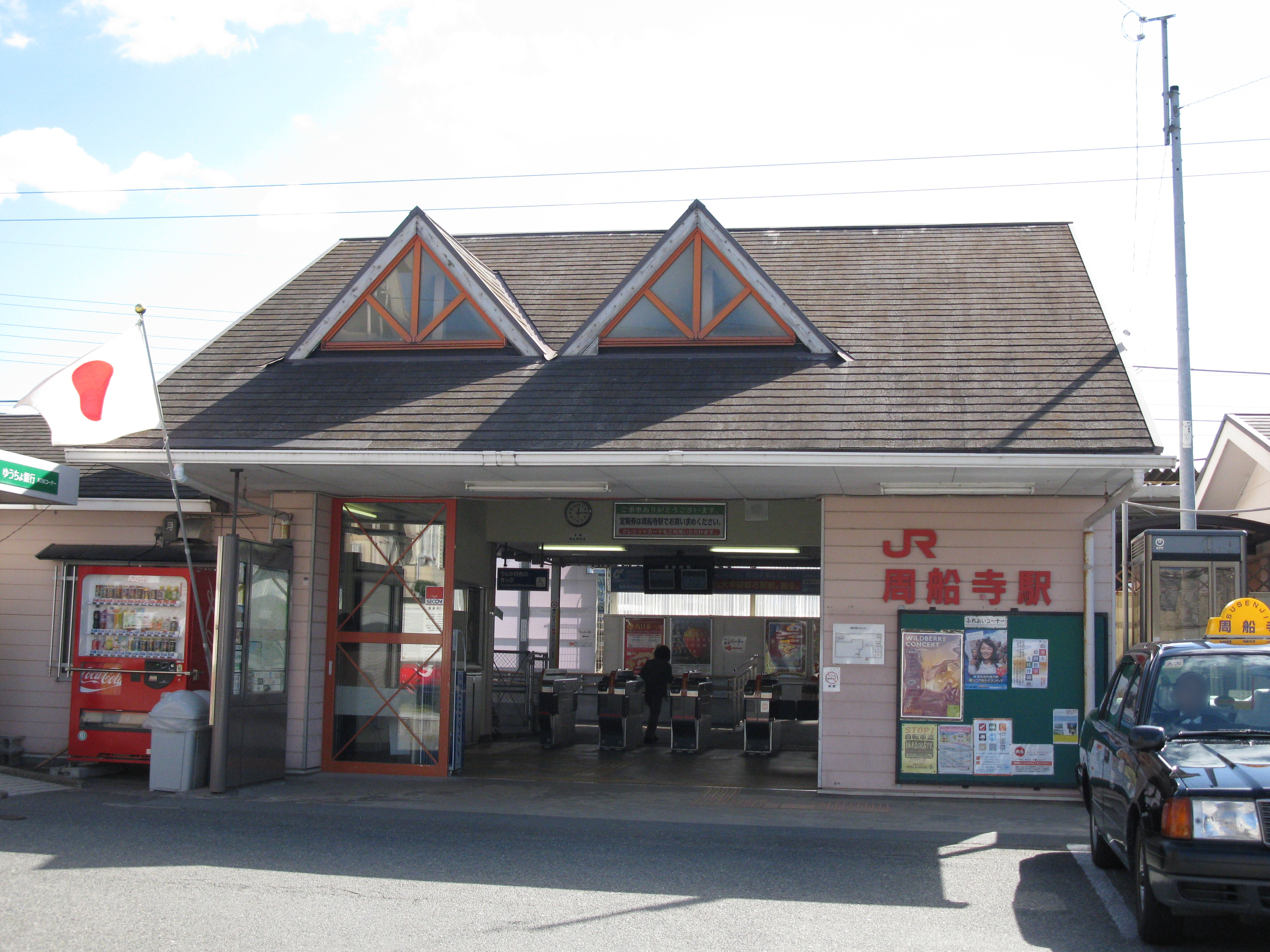 The building of Susenji Station on the Kyushu Railway Chikuhi Line Nishi ward, Fukuoka city, Japan